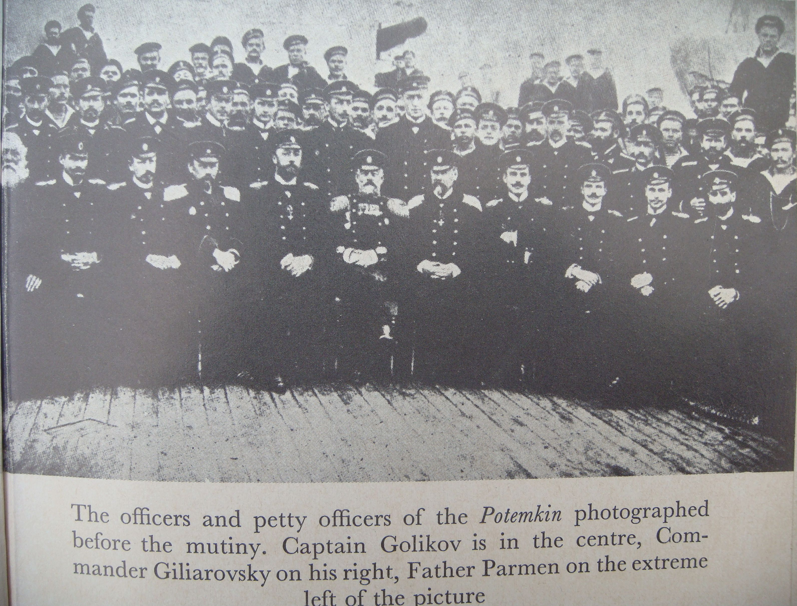 Russian Imperial Navy Battleship Knyaz Potemkin Tavrichesky. Officers and petty officers.